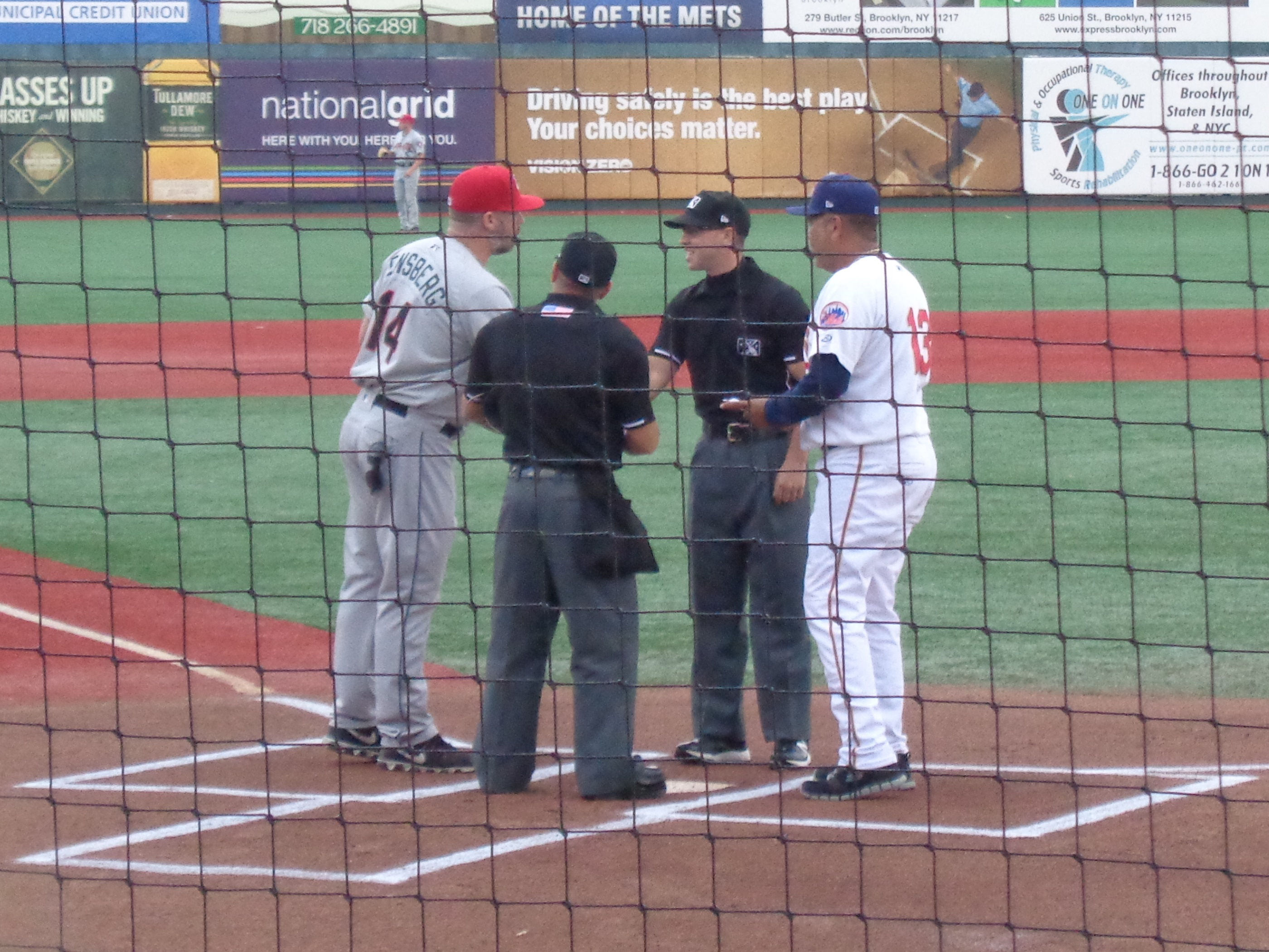 Former Major League third basemen Morgan Ensberg (left) and Edgardo Alfonzo (right), now managers of the Tri-City ValleyCats and Brooklyn Cyclones respectively, meet with the umpires prior to the ValleyCats game against the Cyclones at MCU Park on August 3, 2017.